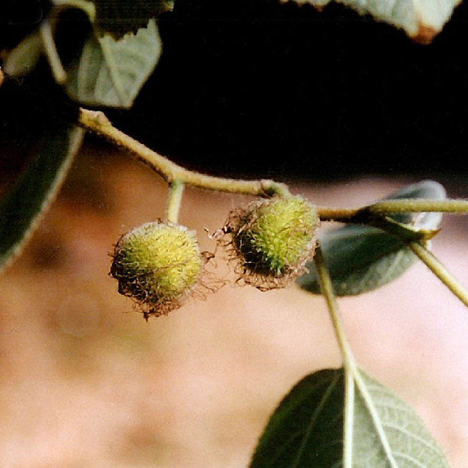 Female inflorescence of Broussonetia in Risan 15.7.2001